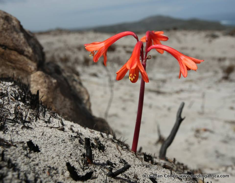 Cyrtanthus ventricosus Willd. - Scarborough, Cape Peninsula, South Africa